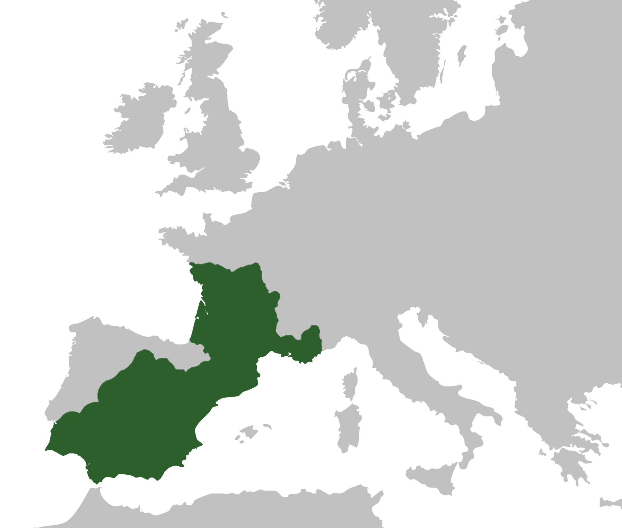 The territory of Visigothic Kingdom, c.500.